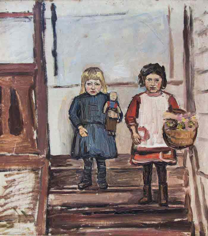 Two girls